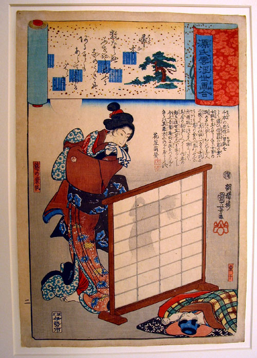 Kuniyoshi Ichiyusai, ukiyo-e color print of Kuzunoha the fox-woman. Kuzunoha was a popular figure in Japanese folklore and the subject of some kabuki plays. In this print, Kuzunoha's true form (a fox) is visible in the screen before her. From